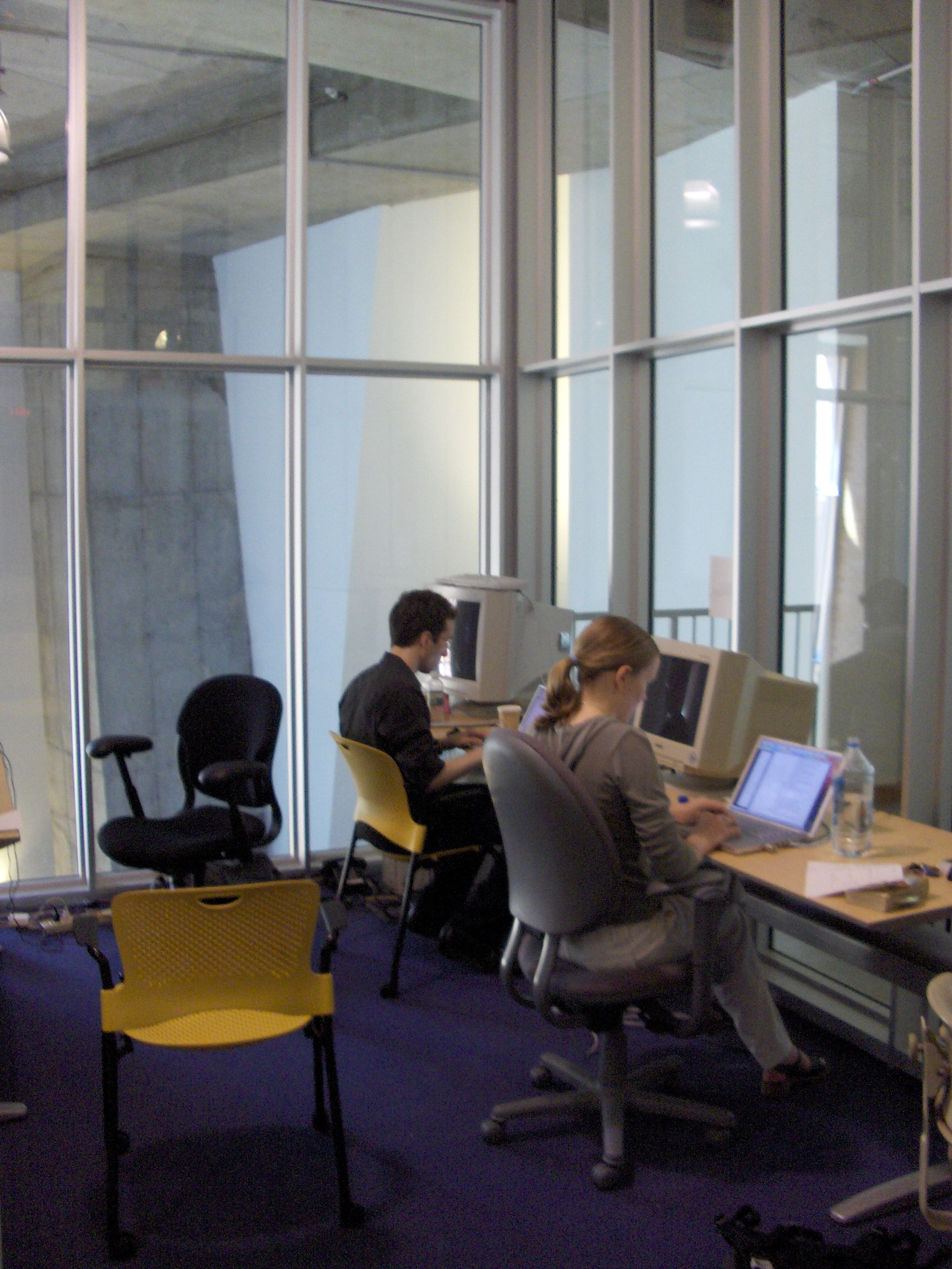 The science commons office. Megan and Tom working away.